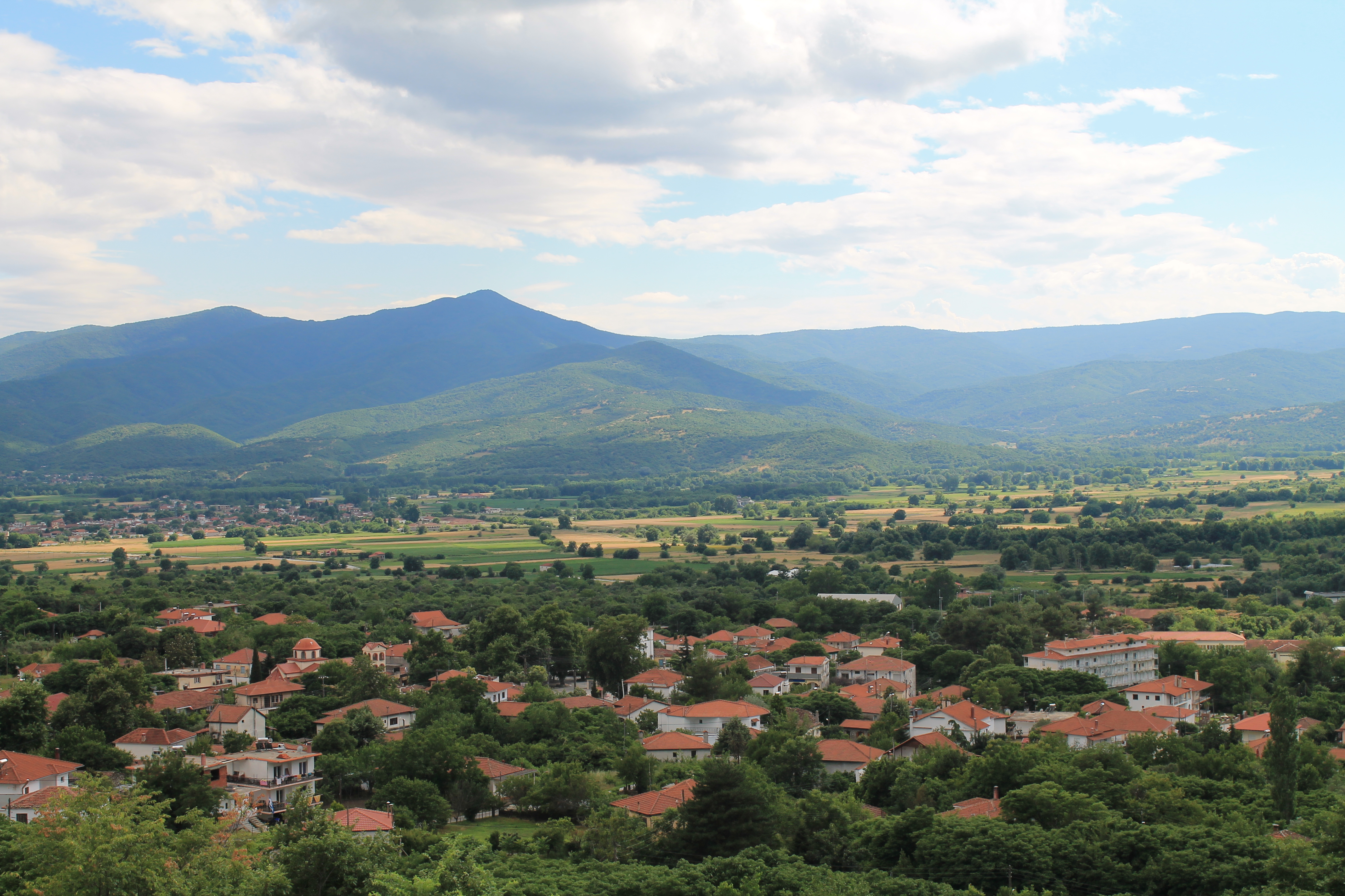 General view of Kato Poroya (Dolni Poroy) with Krusha Mountain, Northern Greece